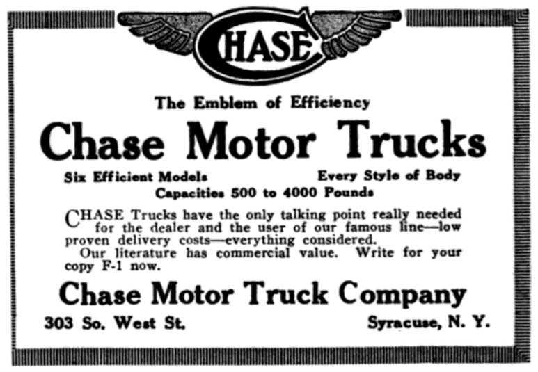 Chase Motor Truck Company - 1913 advertisement